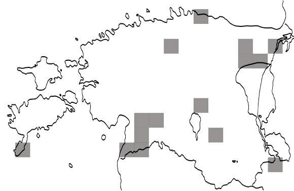 Hypocenomyce anthracophila. Distribution in Estonia 2011.